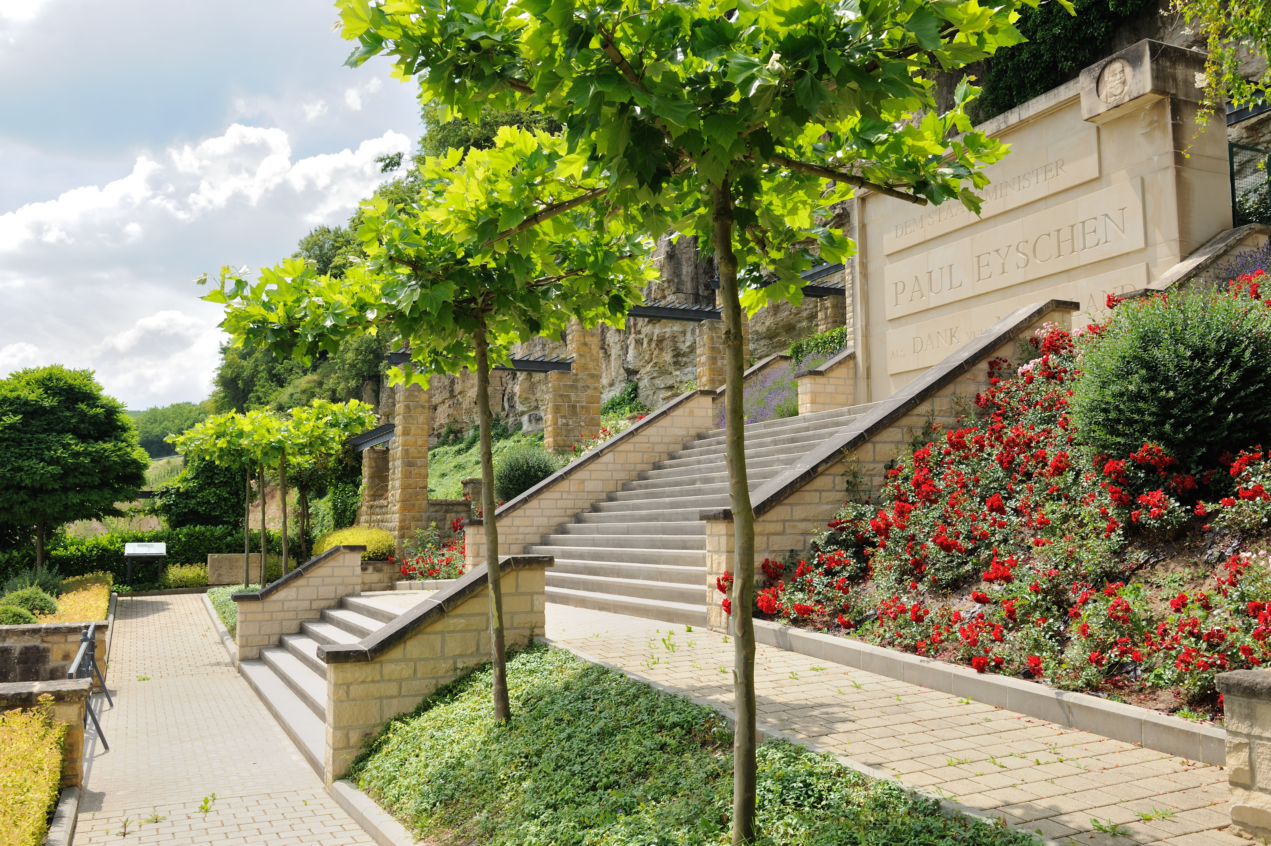 Monument at Stadtbredimus, Luxembourg, erected in 1934 to commemorate the memory of Paul Eyschen (1841-1915), former prime minister of Luxembourg.